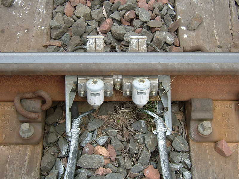 Axle counter detection unit